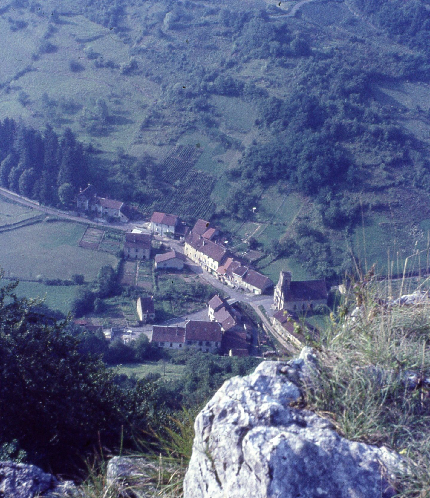 Overview from the cliff